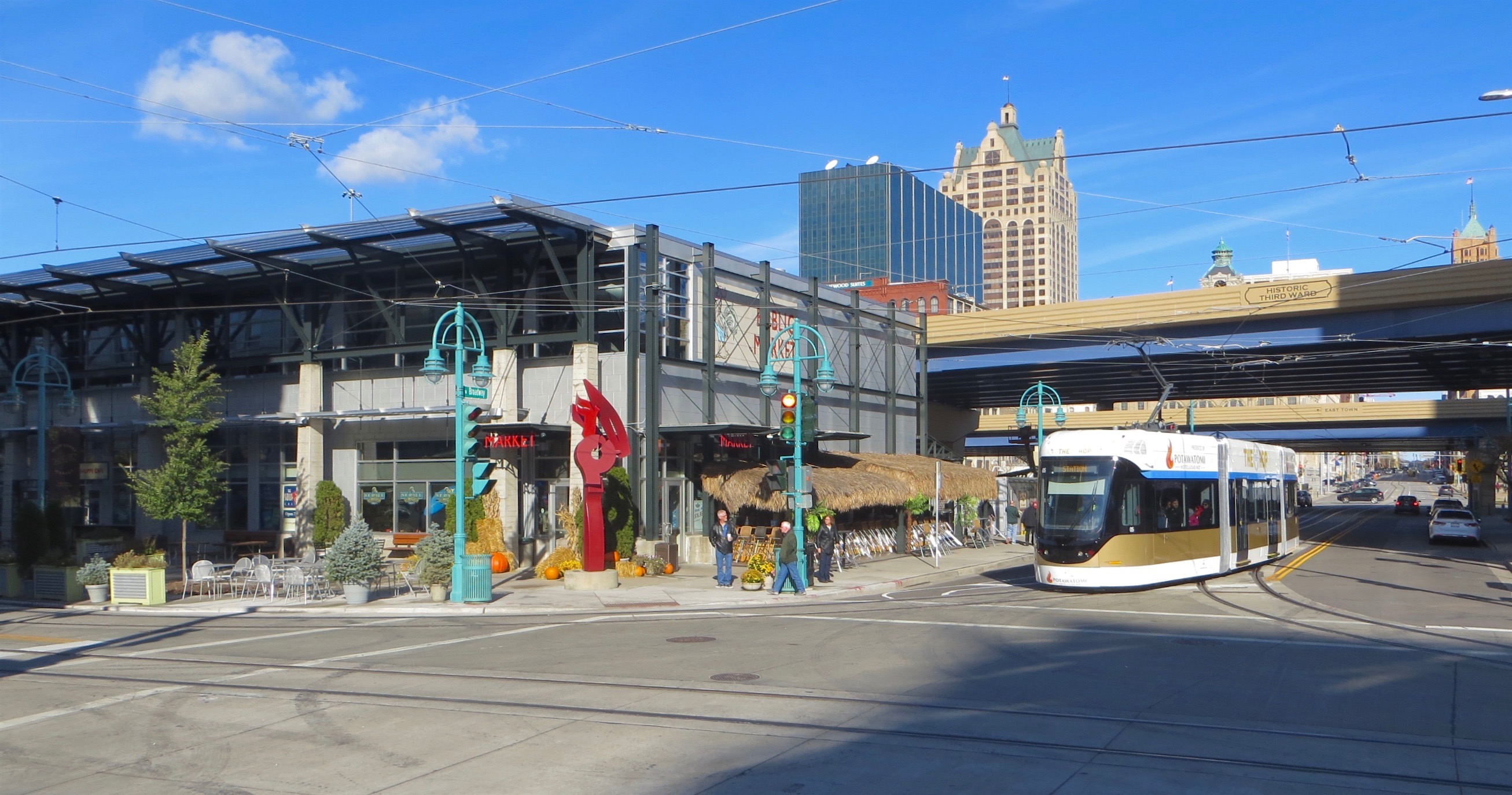 The Milwaukee Public Market with a streetcar on the newly opened "The Hop" system turning from Broadway onto St Paul Avenue